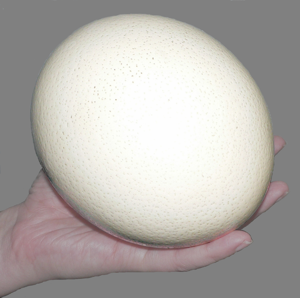 Osrtich egg